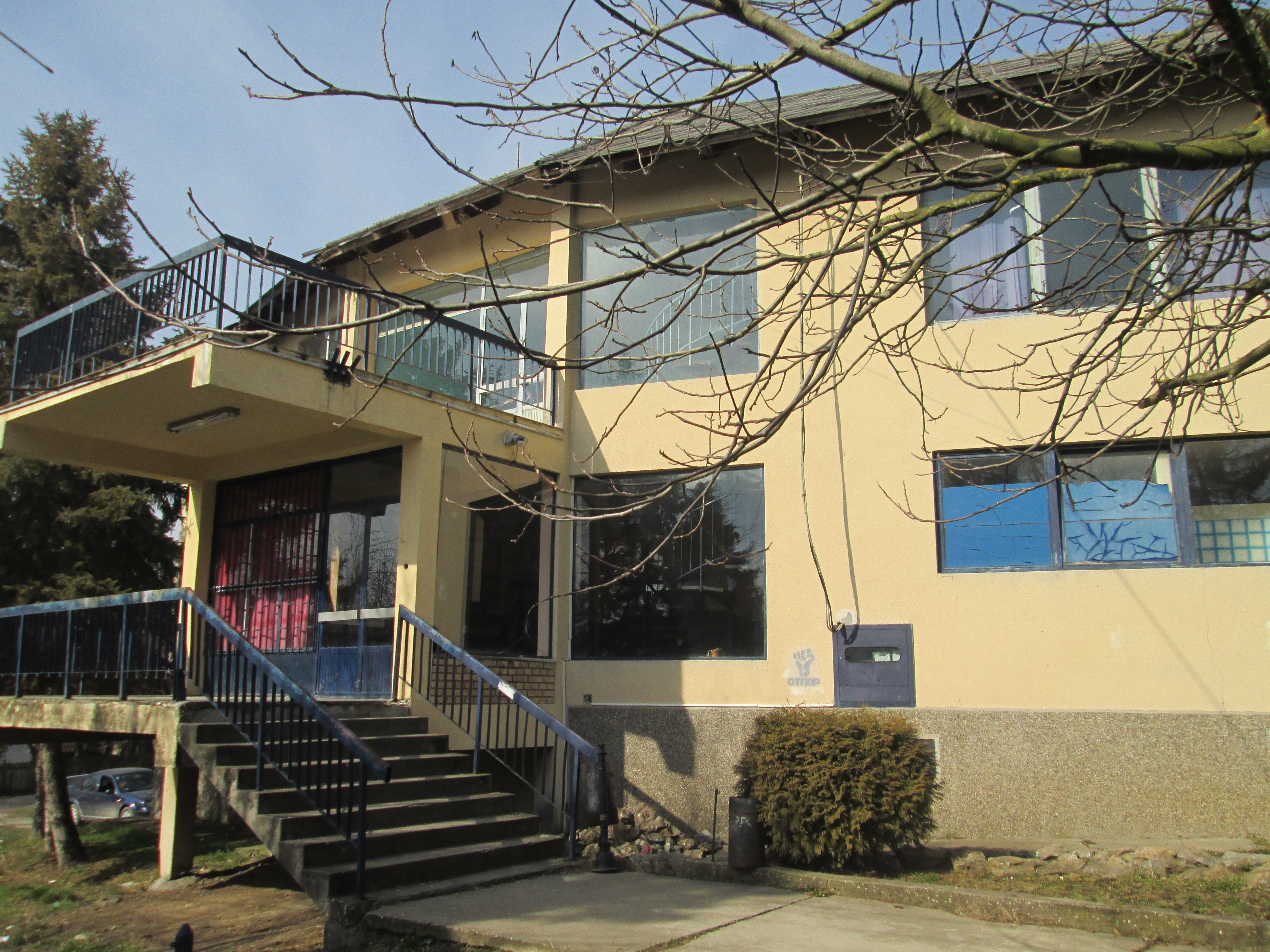 Primary school "Bora Lazić", Vlaška Српски (ћирилица): Основна школа „Бора Лазић“, Влашка